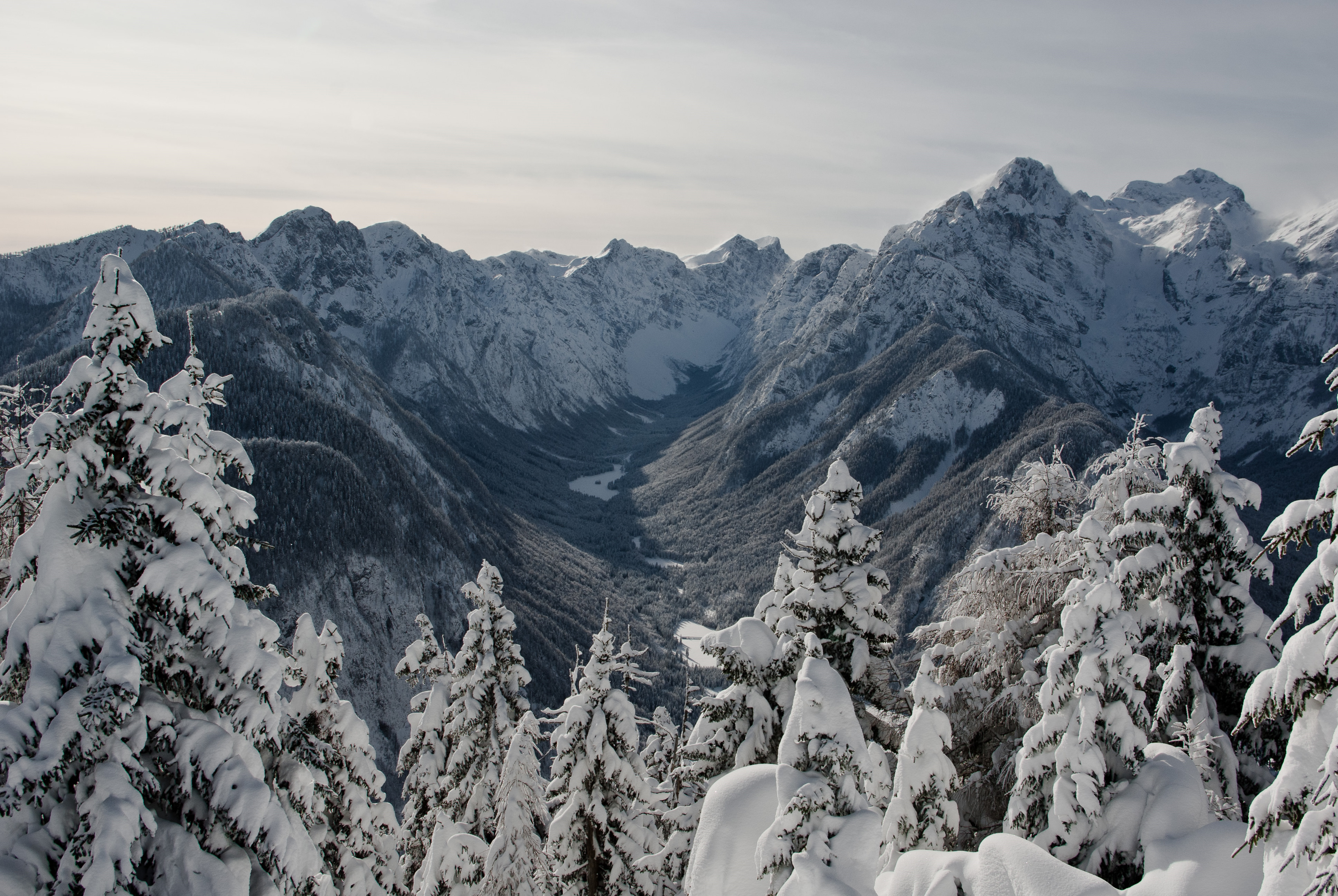 The valley of Krma. The peak in the right is Triglav. Taken from Jerebikovec.